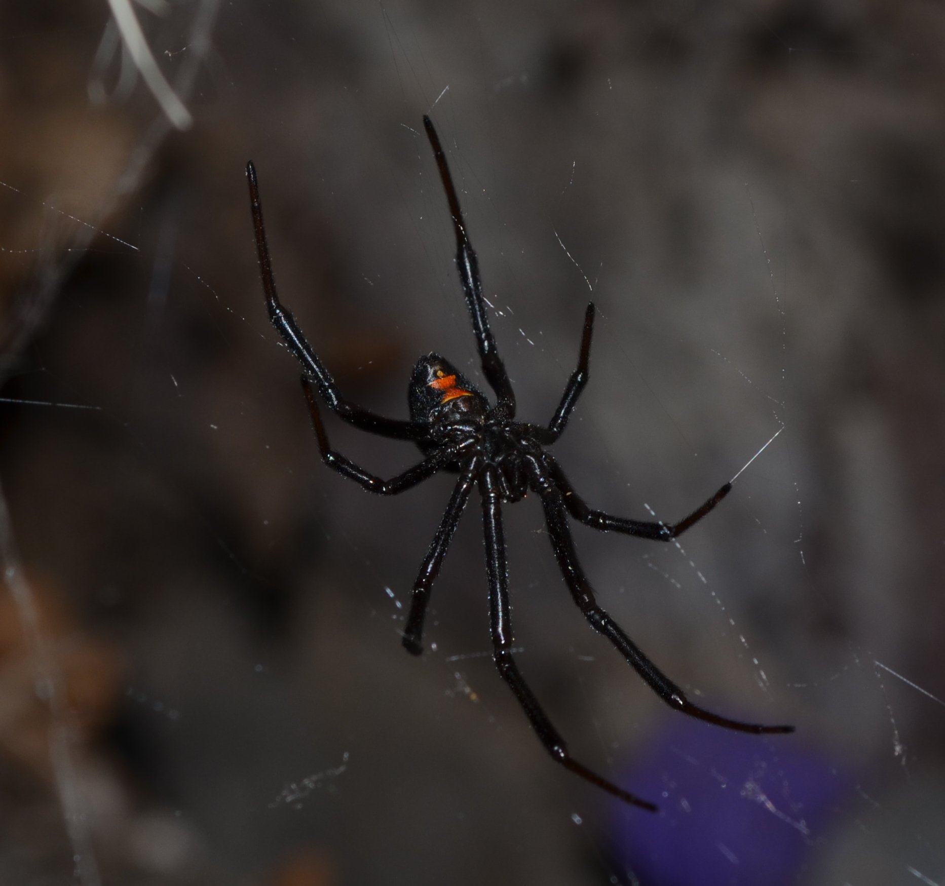 Western Black Widow (Latrodectus hesperus) - (taken on Nikon D5100)